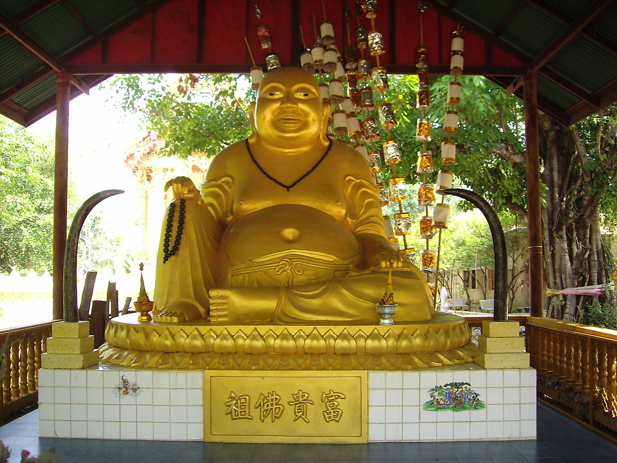 Hotei in Thailand is Phra Sangkrachai พระสังกระจาย Almost all Buddhist temples in Thailand have such an image. This one is at Wat Don Phra Chao วัคดอนพระเจ้า in the City of Yasothon, Thailand. Photographed by me, Pawyi Lee